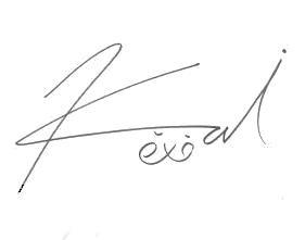 Copy of Kai's signature from EXO